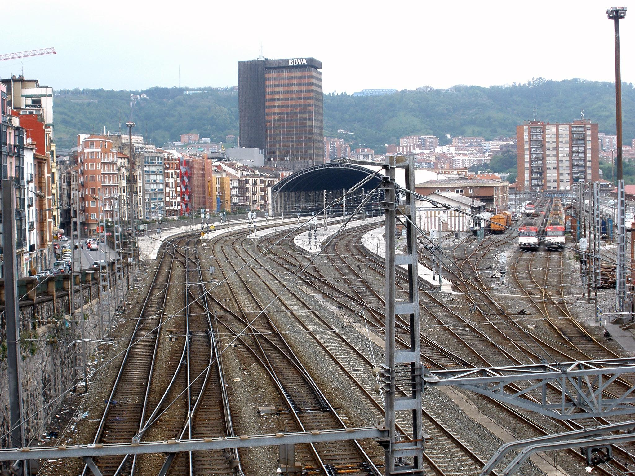 Estación de Abando Indalecio Prieto, en Bilbao, desde la calle de San Francisco. Bilbao, País Vasco, España